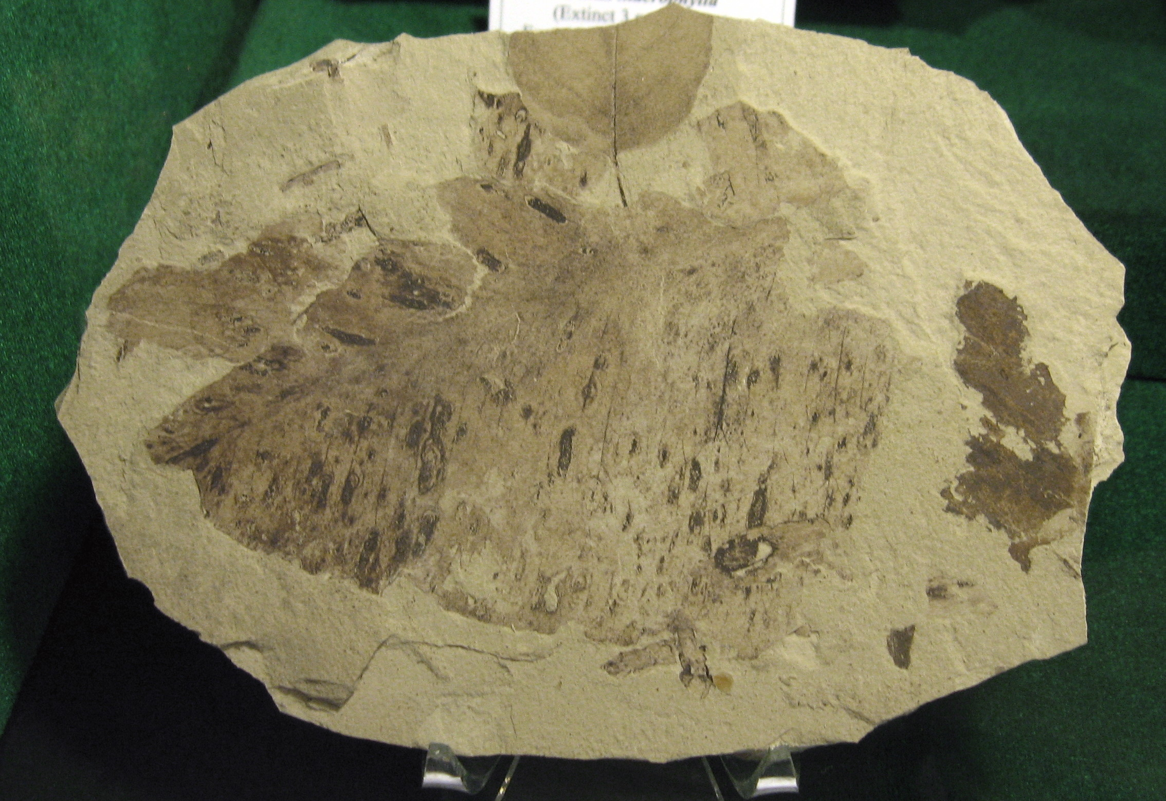 A nearly complete leaf of the extinct Orontium wolfei. 48.5 million years old, Klondike Mountain Formation, Ferry County, Washington, USA. Stonerose Interpretive Center specimen # SR ??-??-??